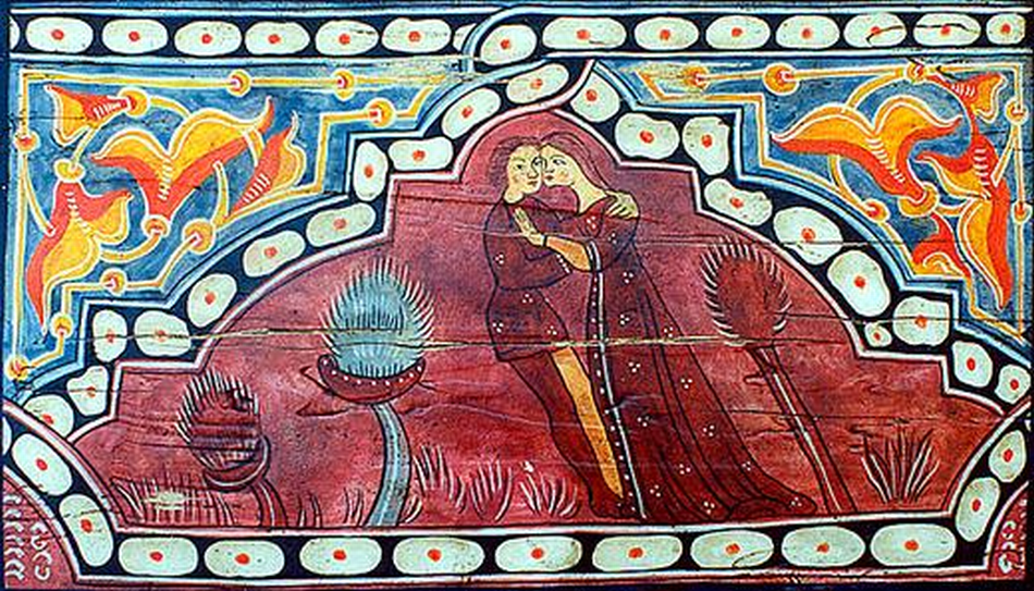 "Lovers" - detail, painting in the cloister ceiling of the Monastery of Santo Domingo de Silos, Spain.